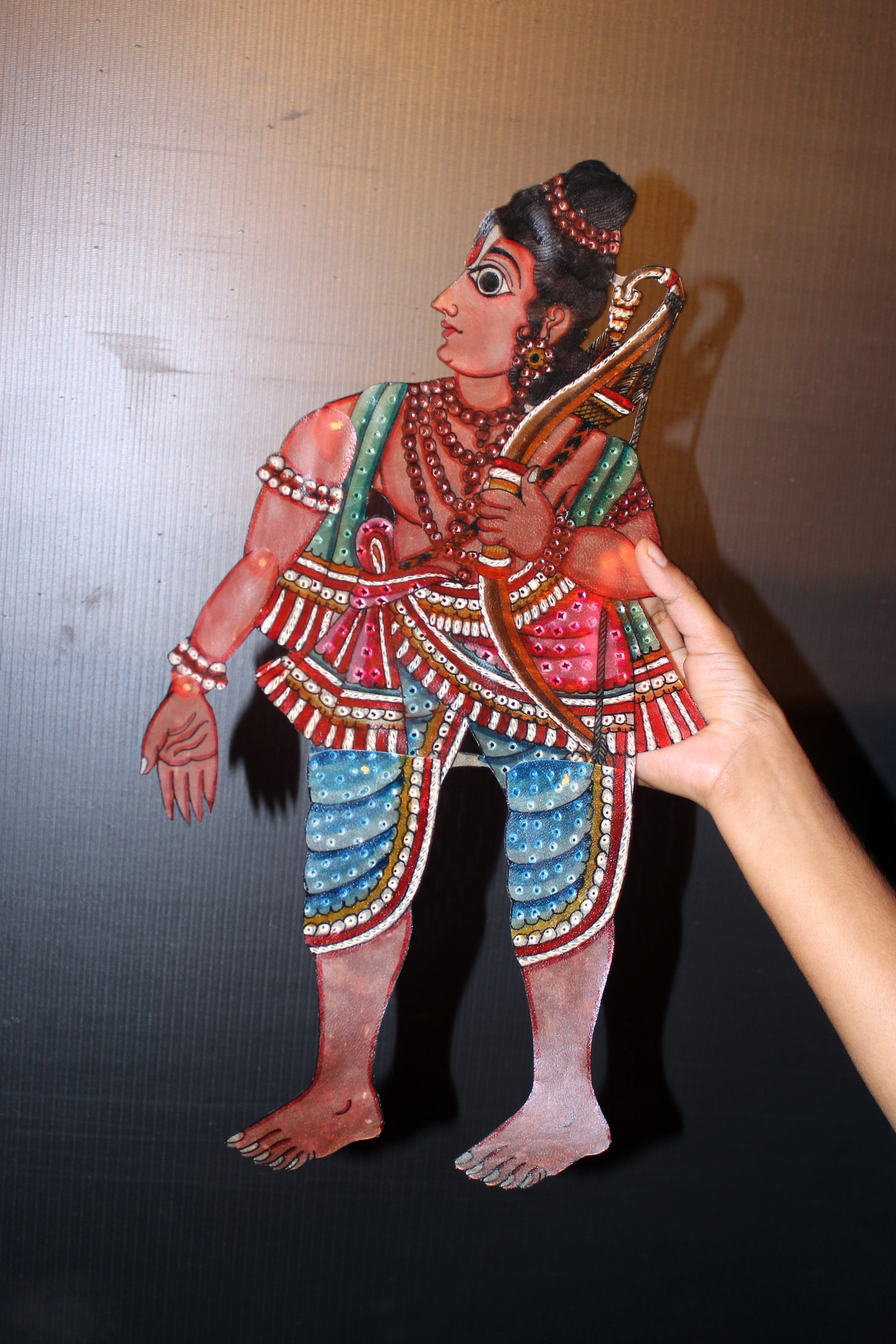 Tholpava koothu shadow puppet of lord Ram